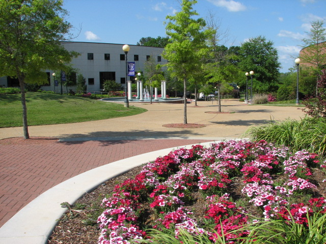 Campus of Millsaps College in Jackson, Mississippi